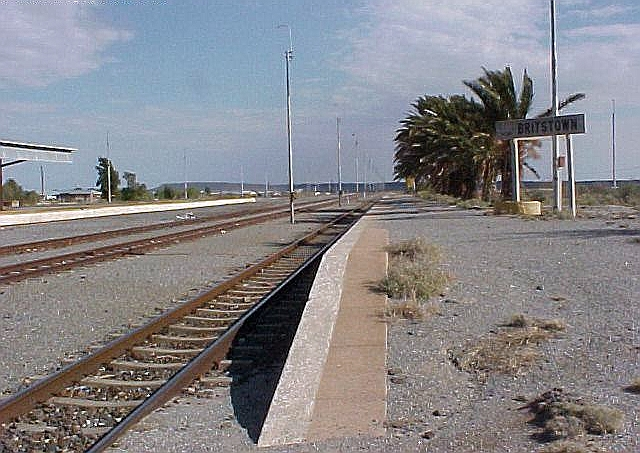 Britstown station, Northern Cape